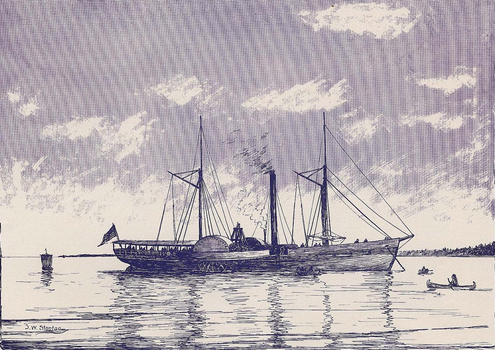 Walk in the Water, first steamboat to operate on the Great Lakes.